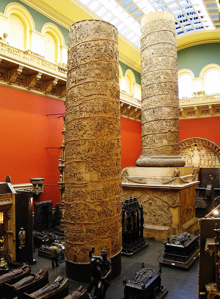 The two halves of a full-size plaster cast of Trajan's Column dominates one of the two cast rooms in the sculpture section of the Victoria and Albert Museum in London.